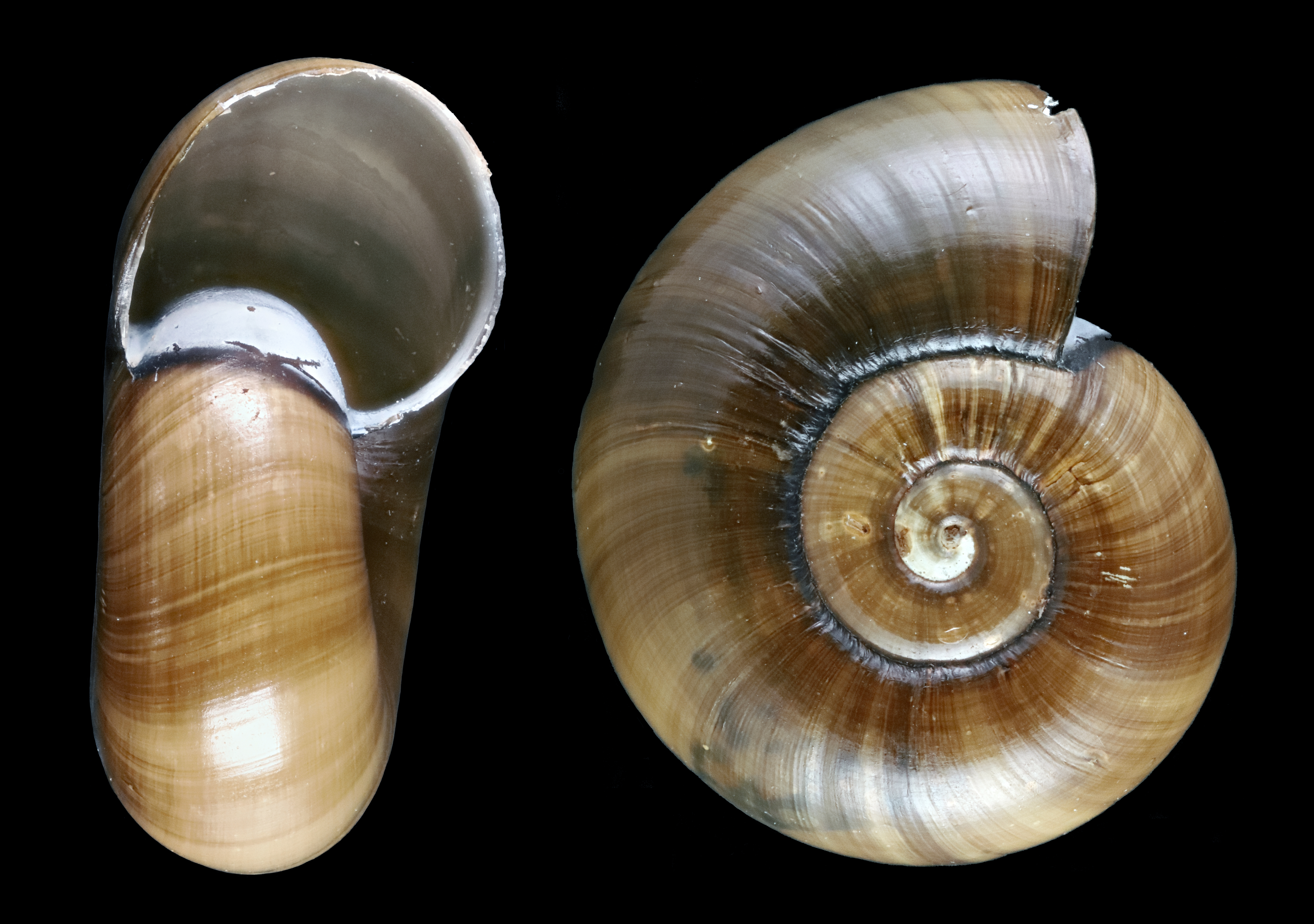 Shell maximal length = 10.2 mm